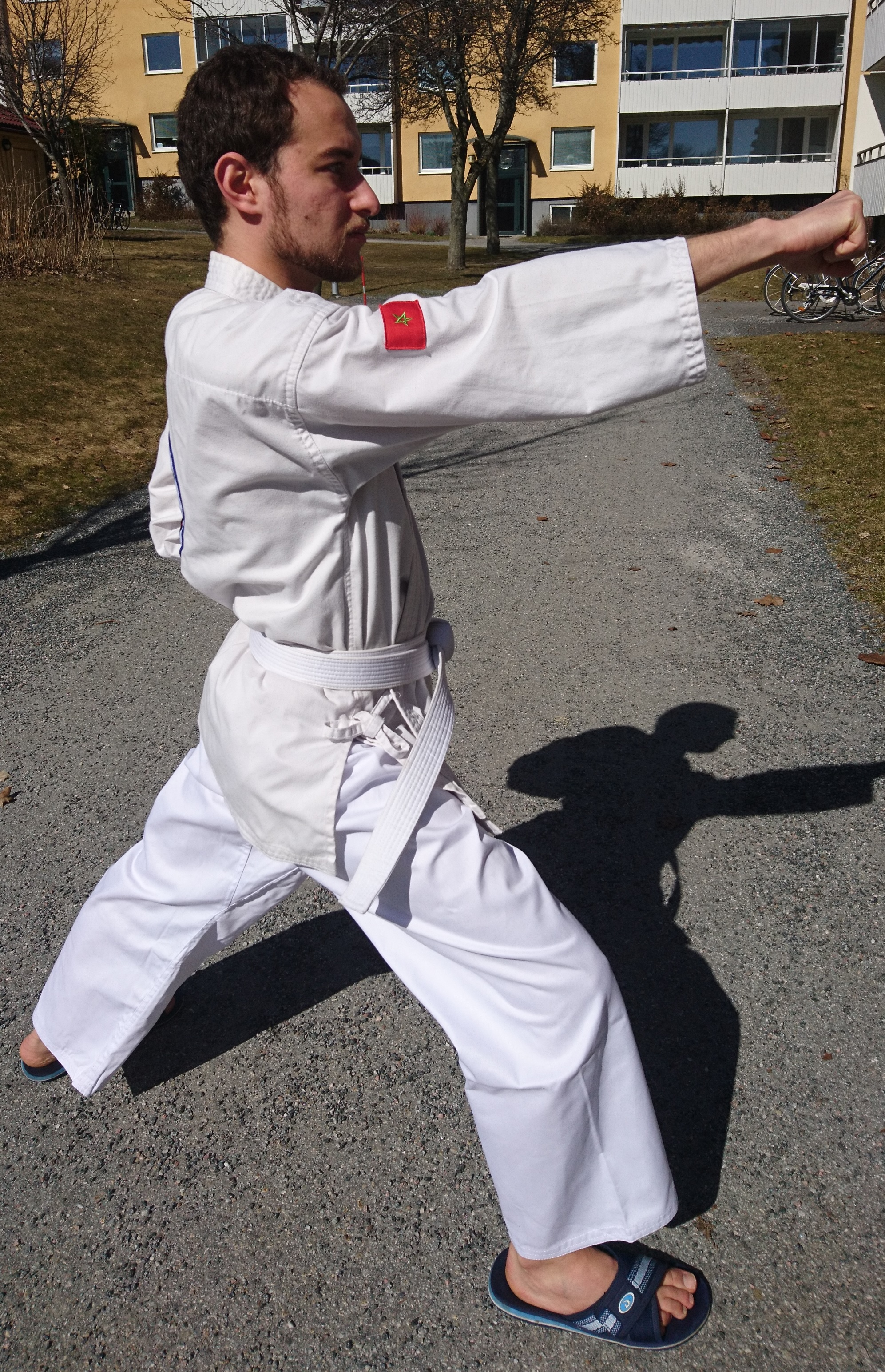 Tang Soo Do white Belt practitioner performing a punch